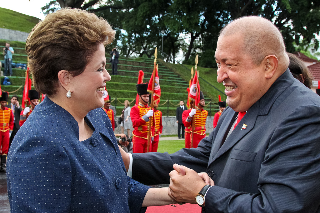 President Dilma Rousseff recieves Hugo Chávez during a ceremonial visit